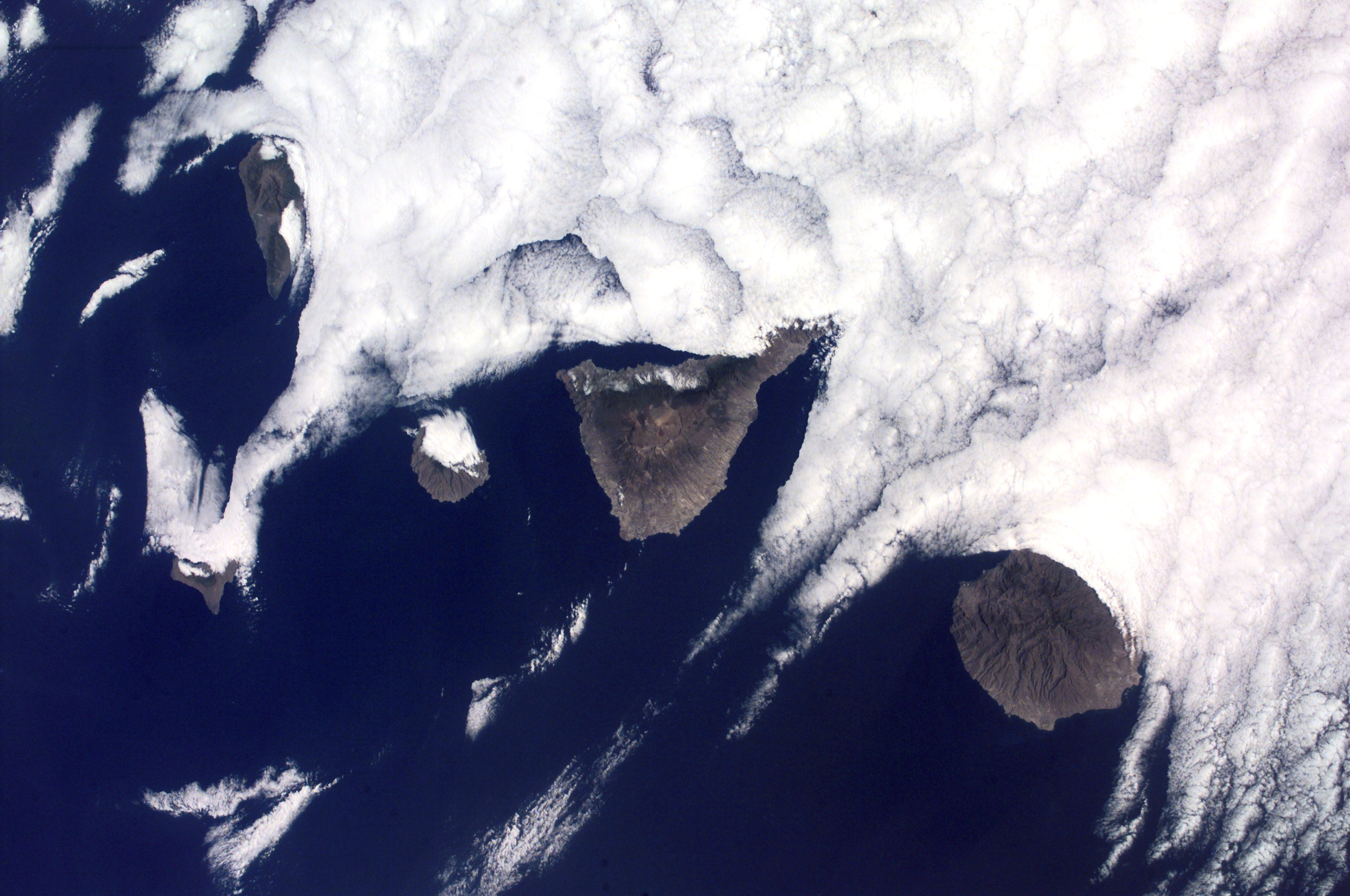 El Hierro, La Palma, Tenerife, La Gomera and Gran Canaria.